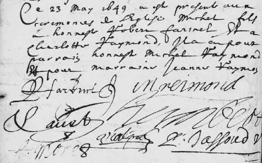 Birth certificate of Michel Farinel (1649-1726).